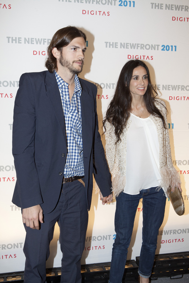 NewFront speakers Ashton Kutcher and Demi Moore enter The NewFront.